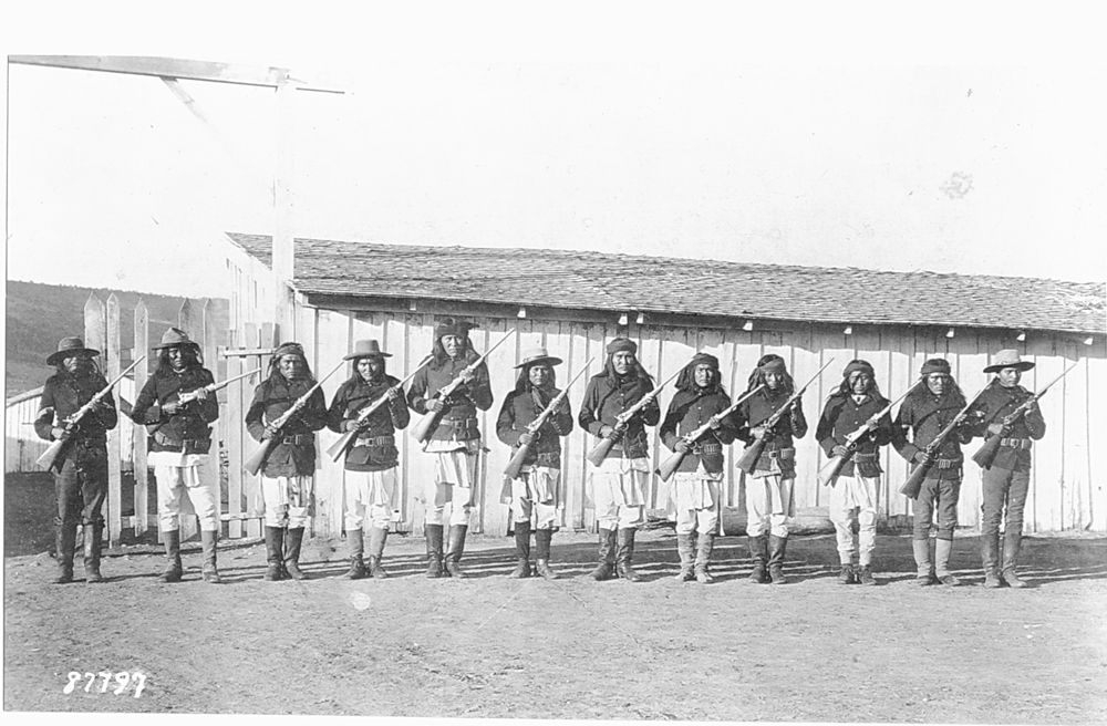 Apache Scouts at Ft. Apache, Arizona Territory